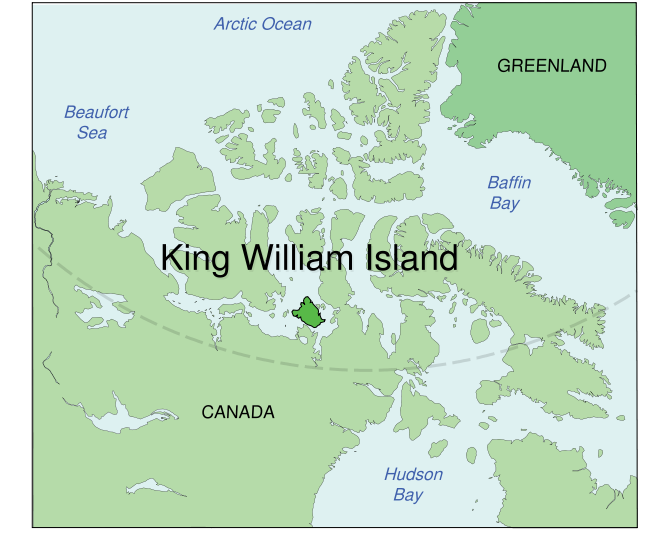 Created based on images from the CIA's World Fact Book.